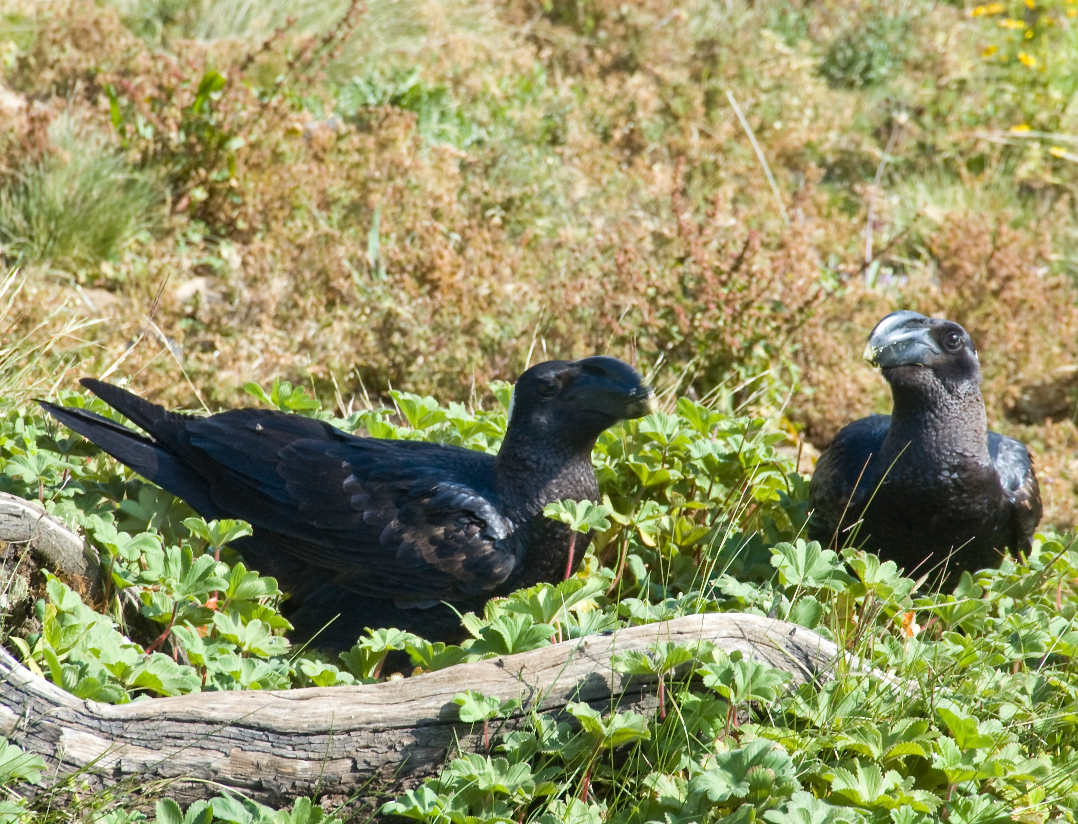 I came across this charming pair of Thick-billed Ravens (Corvus crassirostris) on the grounds of the Simien Lodge in the Simien Mountains of Ethiopia. According to Wikipedia, the Thick-billed Raven is the largest member of its family, the Corvids, which includes crows, ravens, rooks, jackdaws, jays, magpies, treepies, choughs and nutcrackers. In fact, the Thick-billed Raven is the largest member of the order that includes all perching birds! Wikipedia says this bird's range "covers Eritrea, Somalia and Ethiopia; its habitat includes mountains and high plateau between elevations of 1500 to 2400 metres." This pair must not have read Wikipedia, because the site where I photographed them was at 3,260 meters above sea level.